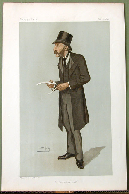 Statesmen No.656: Caricature of Sir Henry Hoyle Howorth KCIE DCL FRS MP. Caption reads: "a Lancashire Lad"